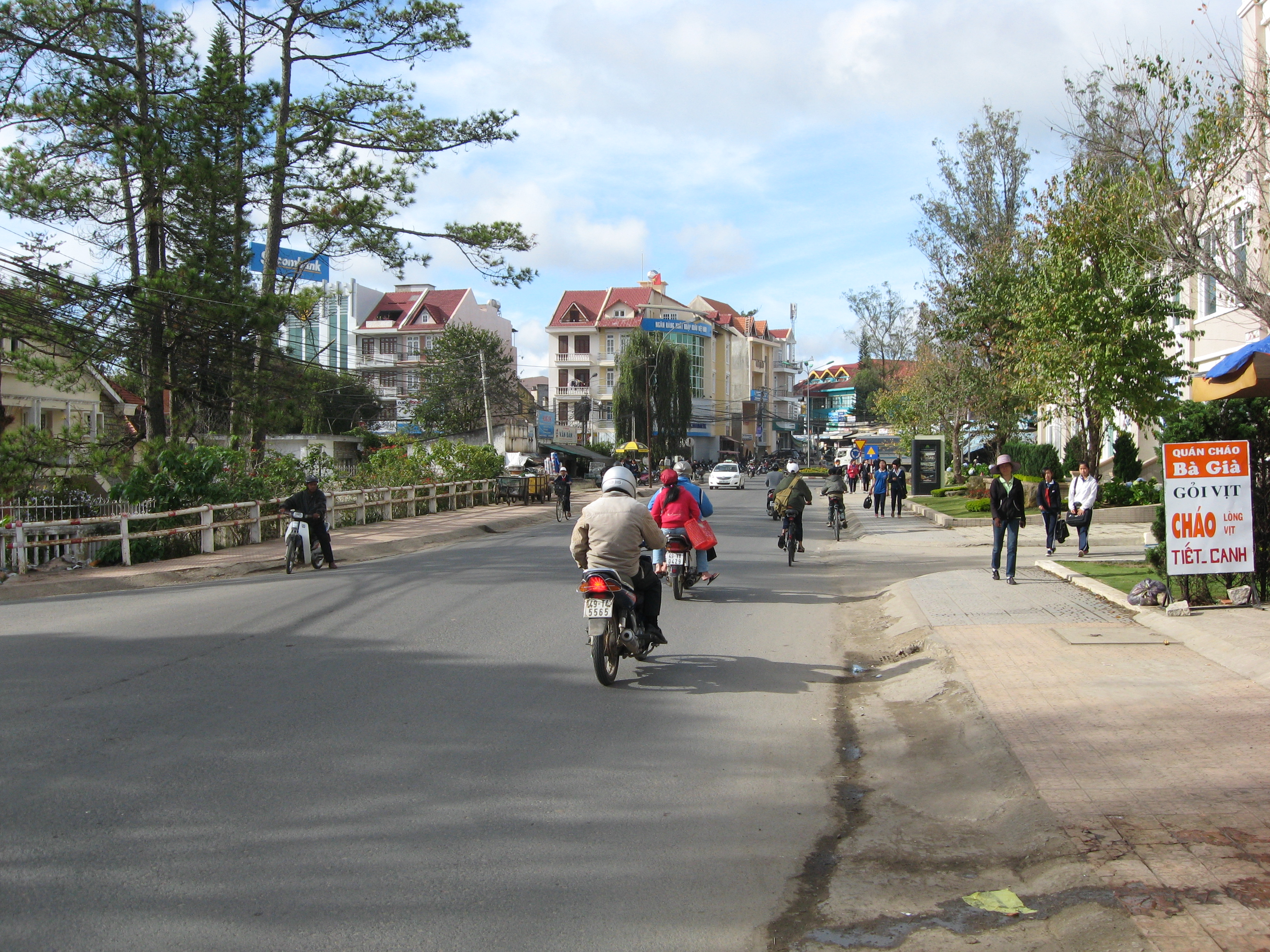 Tran Quy Cap Street, Da Lat